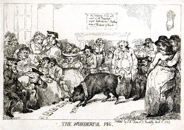 illustration of the Learned Pig